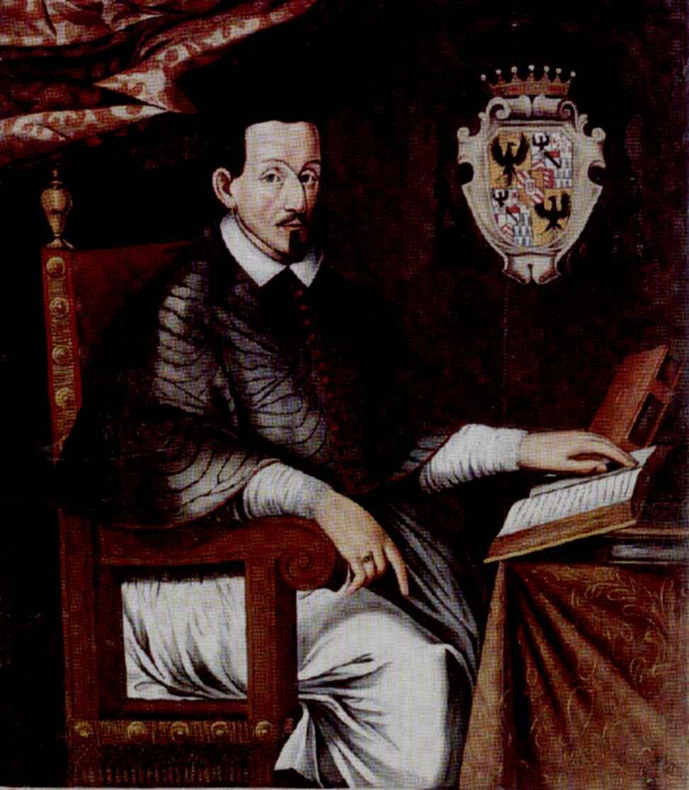 Carlo Emanuele Madruzzo (1599-1658) Prince-Bishop of Trient 1629-1658